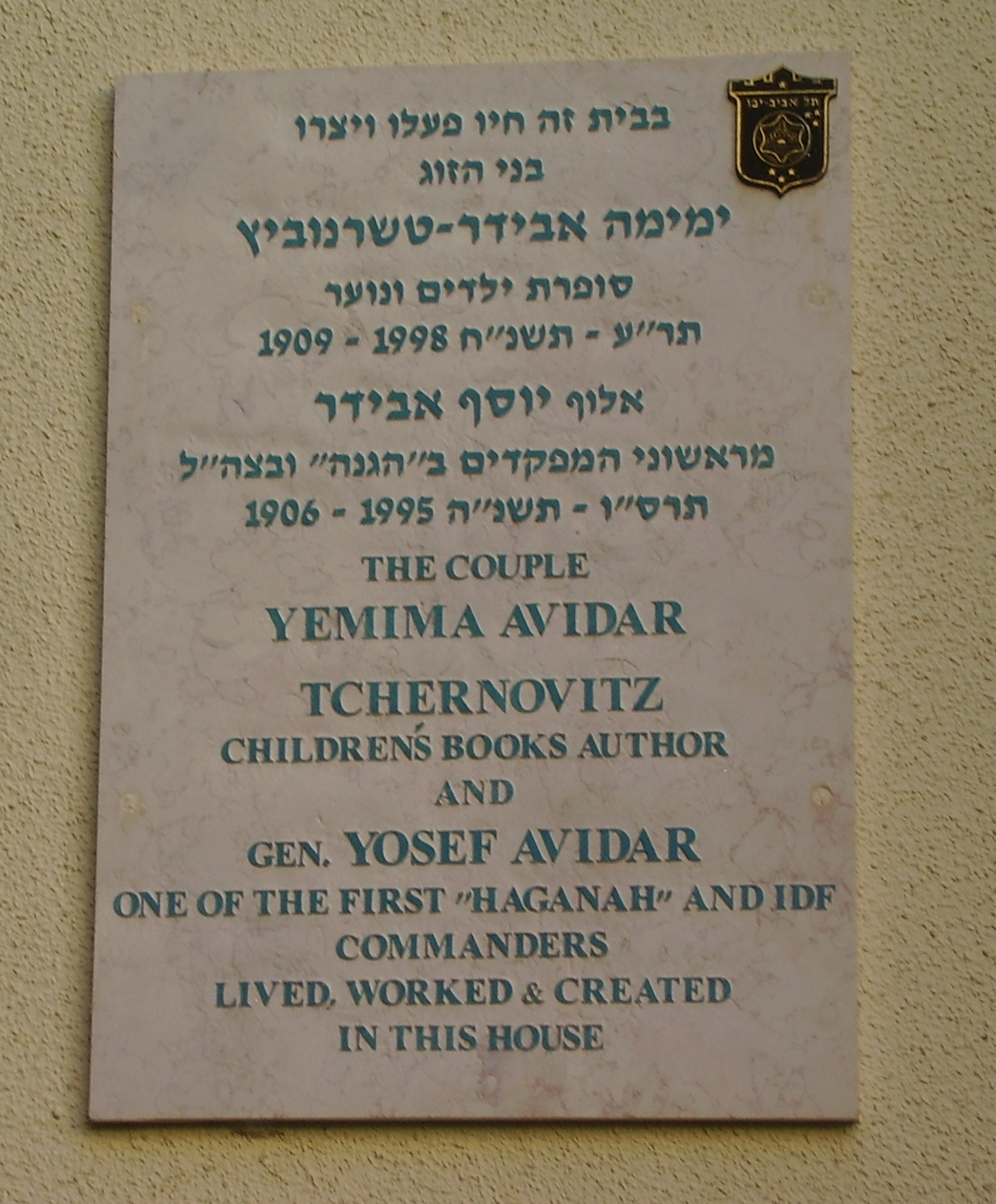 memorial plaque on the house of the author yemima tchernovitz-avidar and her husband, general yosef avidar, in tel aviv לוחית זיכרון על ביתם של סופרת הילדים ימימה טשרנוביץ-אבידר ובעלה אלוף יוסף אבידר ברח' פרוג 22 בתל אביב